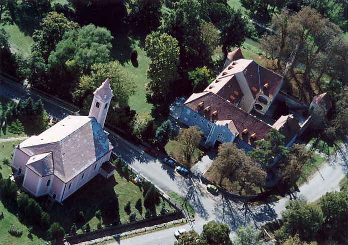 Palace - Mihályi - Hungary - Europe